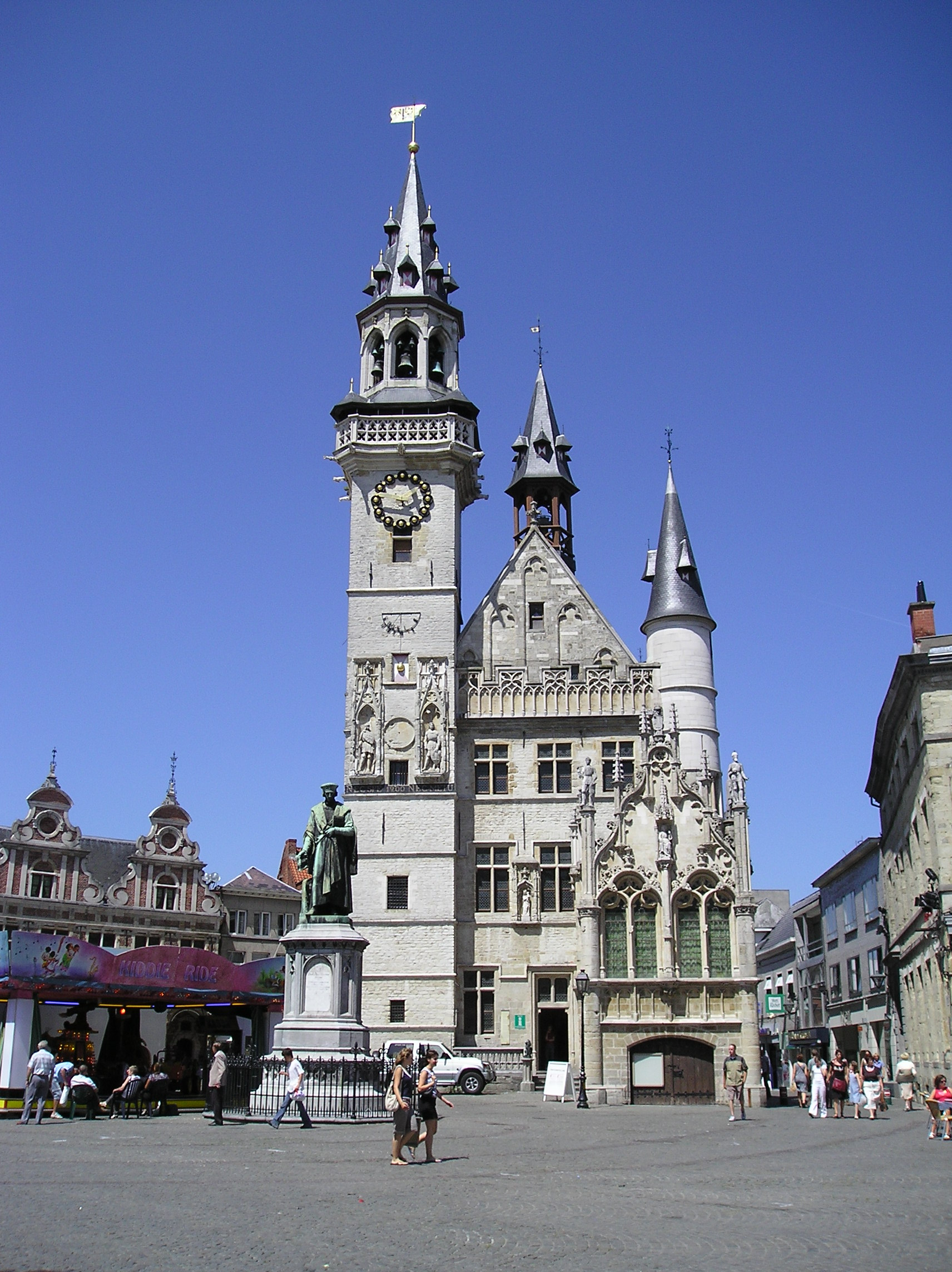 The belfry and schepenhuis (more or less town hall) of Aalst. The oldest parts of this building date back to 1225. It is the oldest town hall of the Low Lands (the Netherlands and Belgium). The belfry belongs to the UNESCO world heritage now.